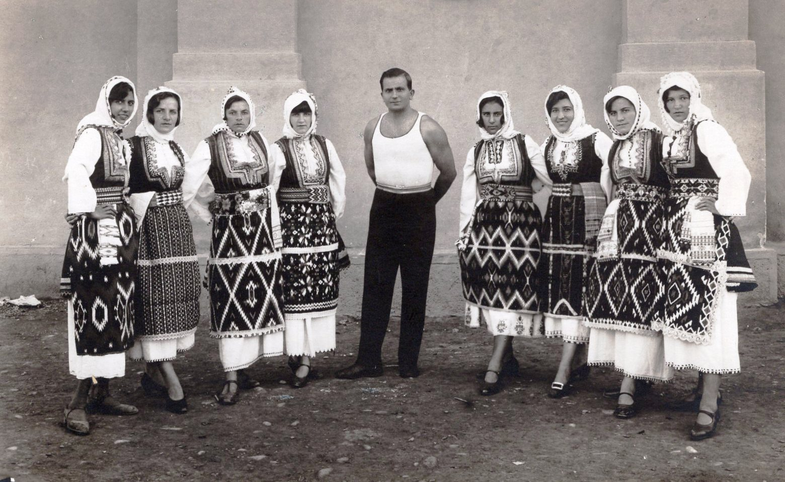 National costume of Dracevo, Skopje, 1930's This media file is produced by Wikipedian in Residence in Category:Wikipedian in Residence at DARM in 2016.